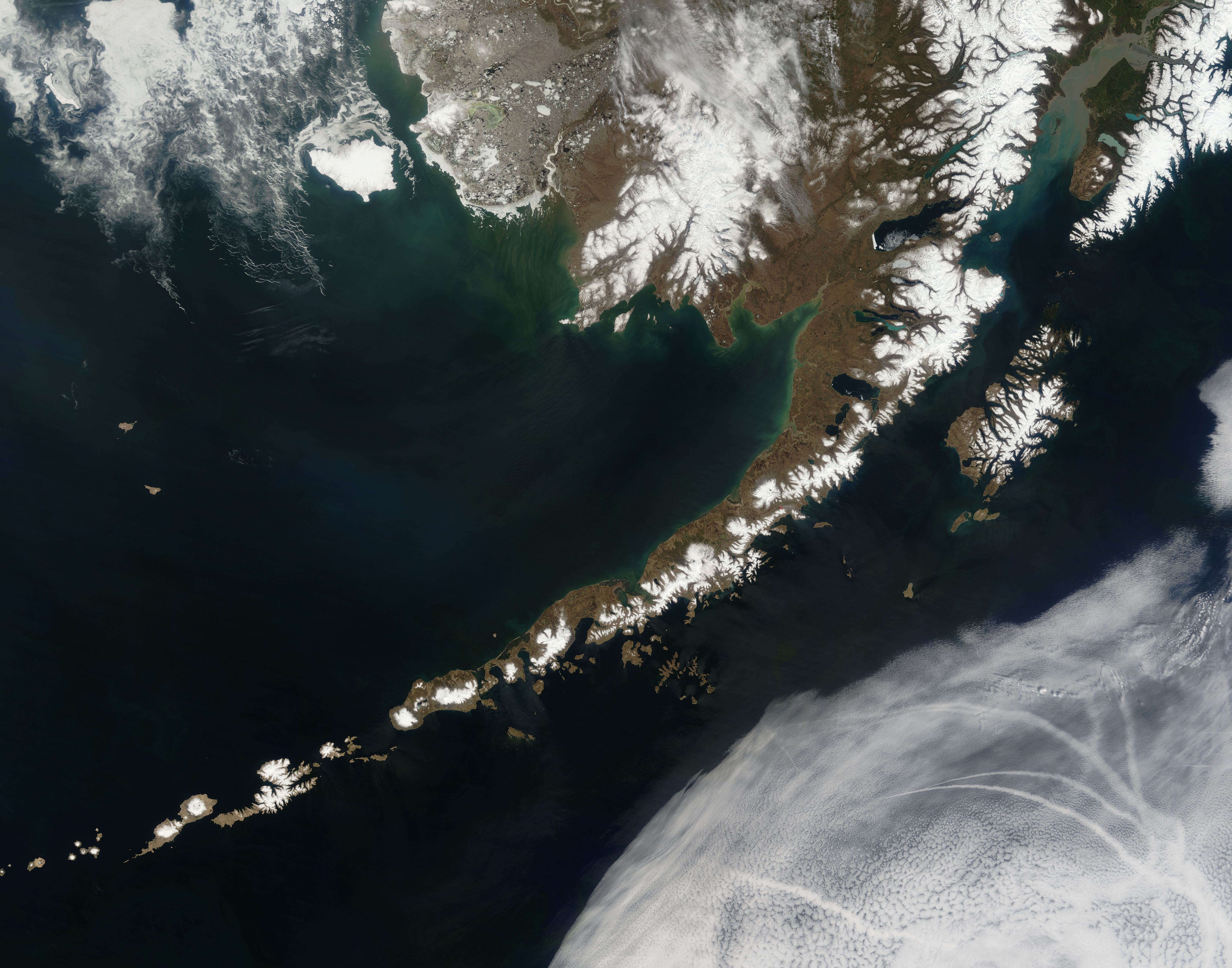 Satellite picture of the Aleutian Islands and the Alaska Peninsula, located in the south of the state of Alaska, United States.